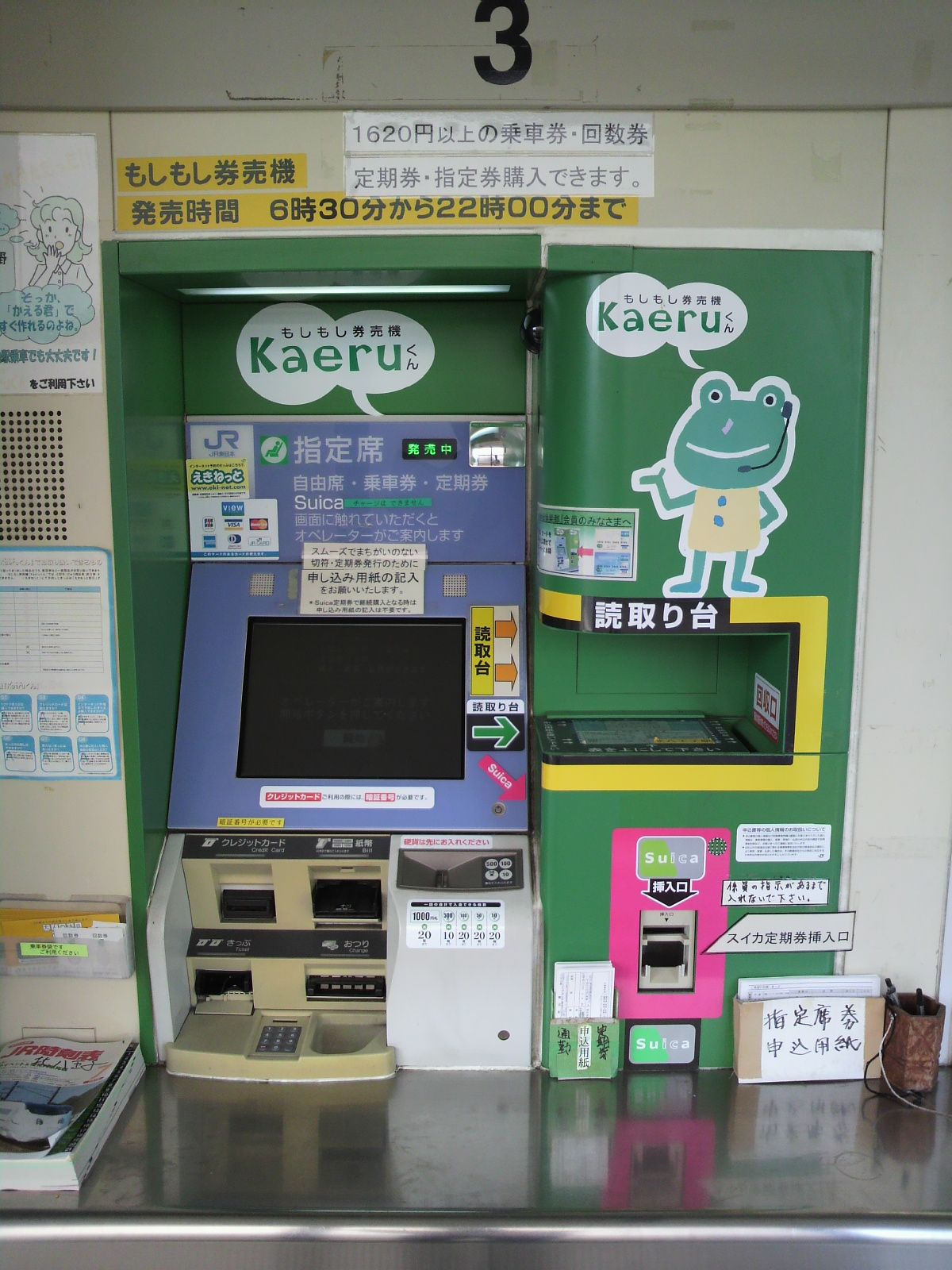 The ticket machine of Kaeru-Kun. At Hachikō Line Kita-Hachiōji Station.